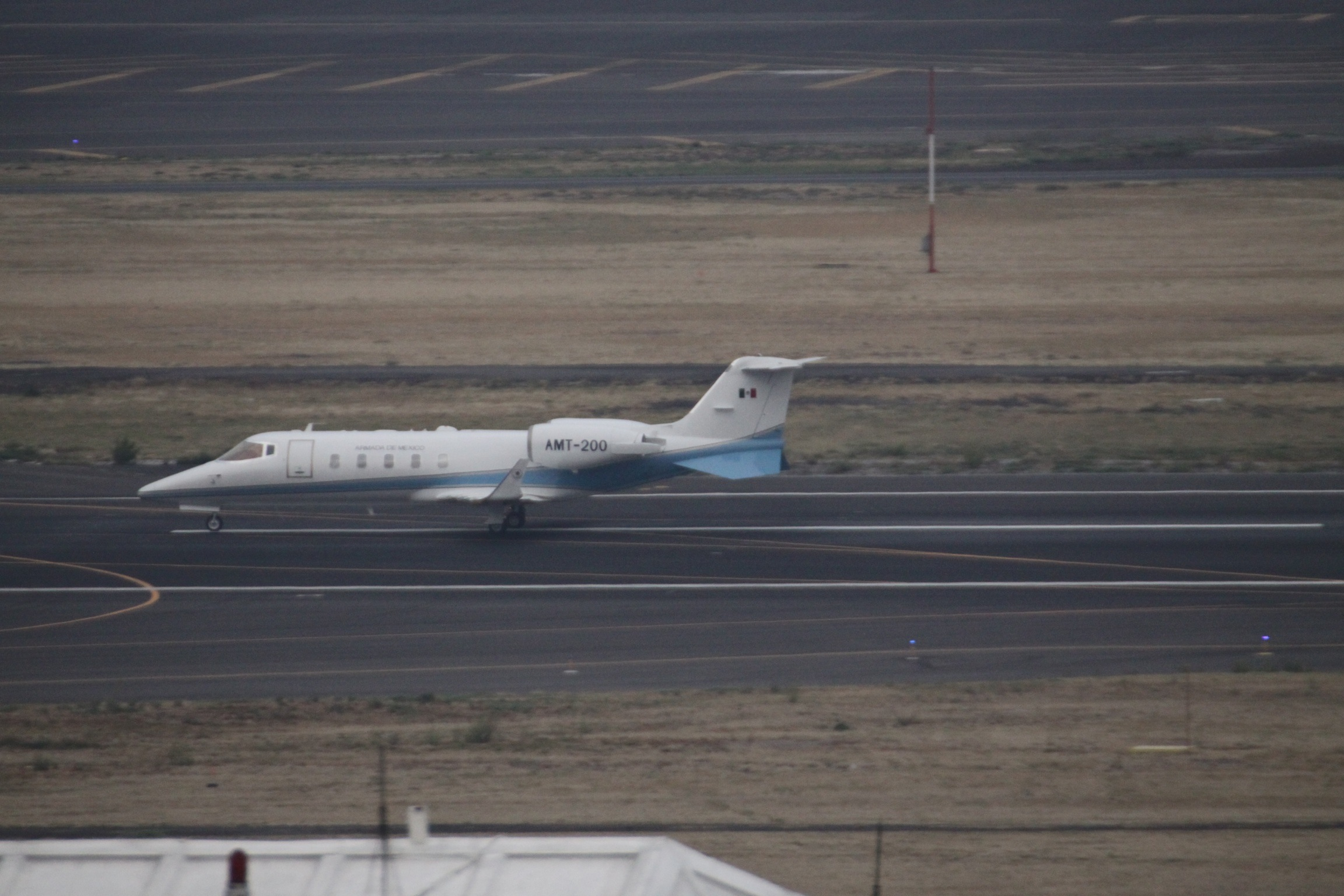 At Mexico City International Airport